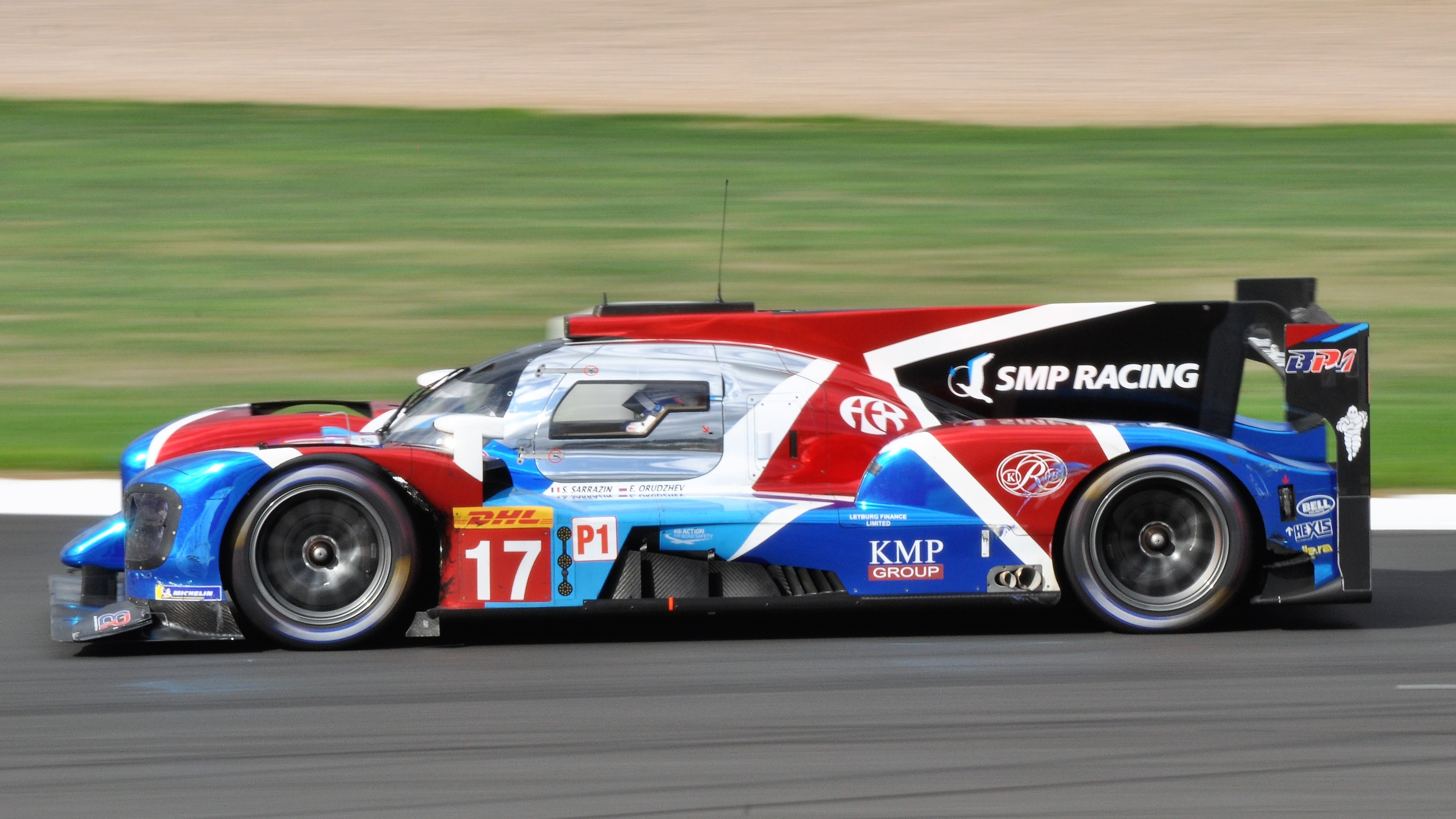 French driver Stéphane Sarrazin powers his number 17 SMP Racing-entered BR Engineering BR1 car through Club corner, during the 2018 6 Hours of Silverstone race. Sarrazin and his co-driver, Egor Orudzhev, eventually finished in third place in the LMP1 class.